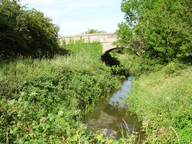 Ulster Canal, Tyholland Overgrown disused canal.